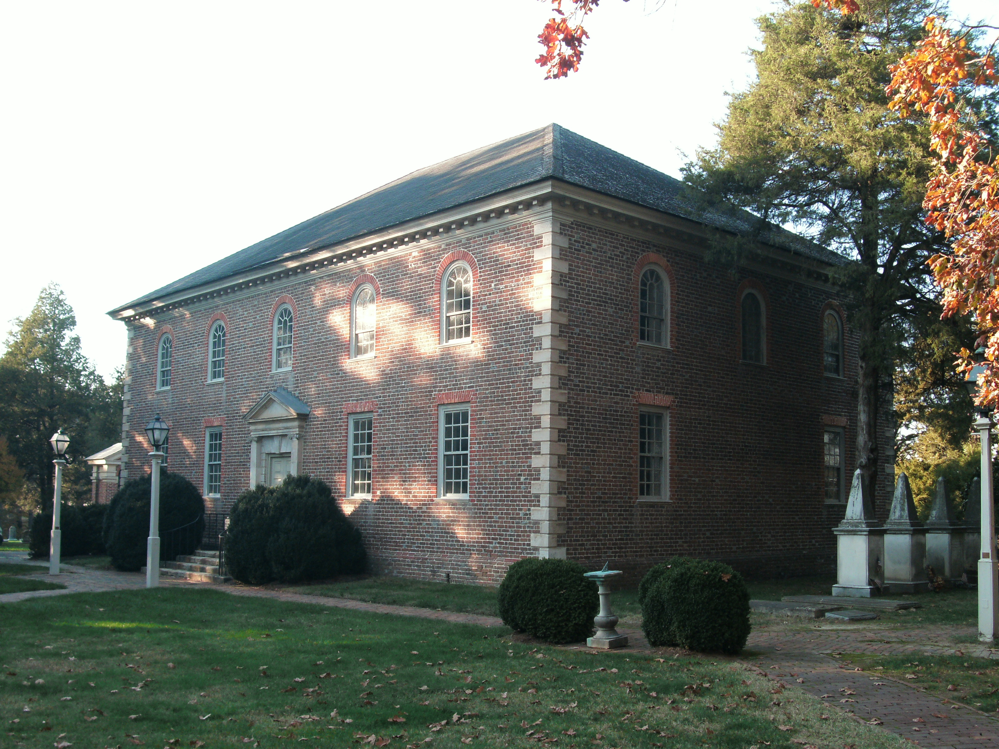 Pohick Church - November, 2009 GEDSC DIGITAL CAMERA